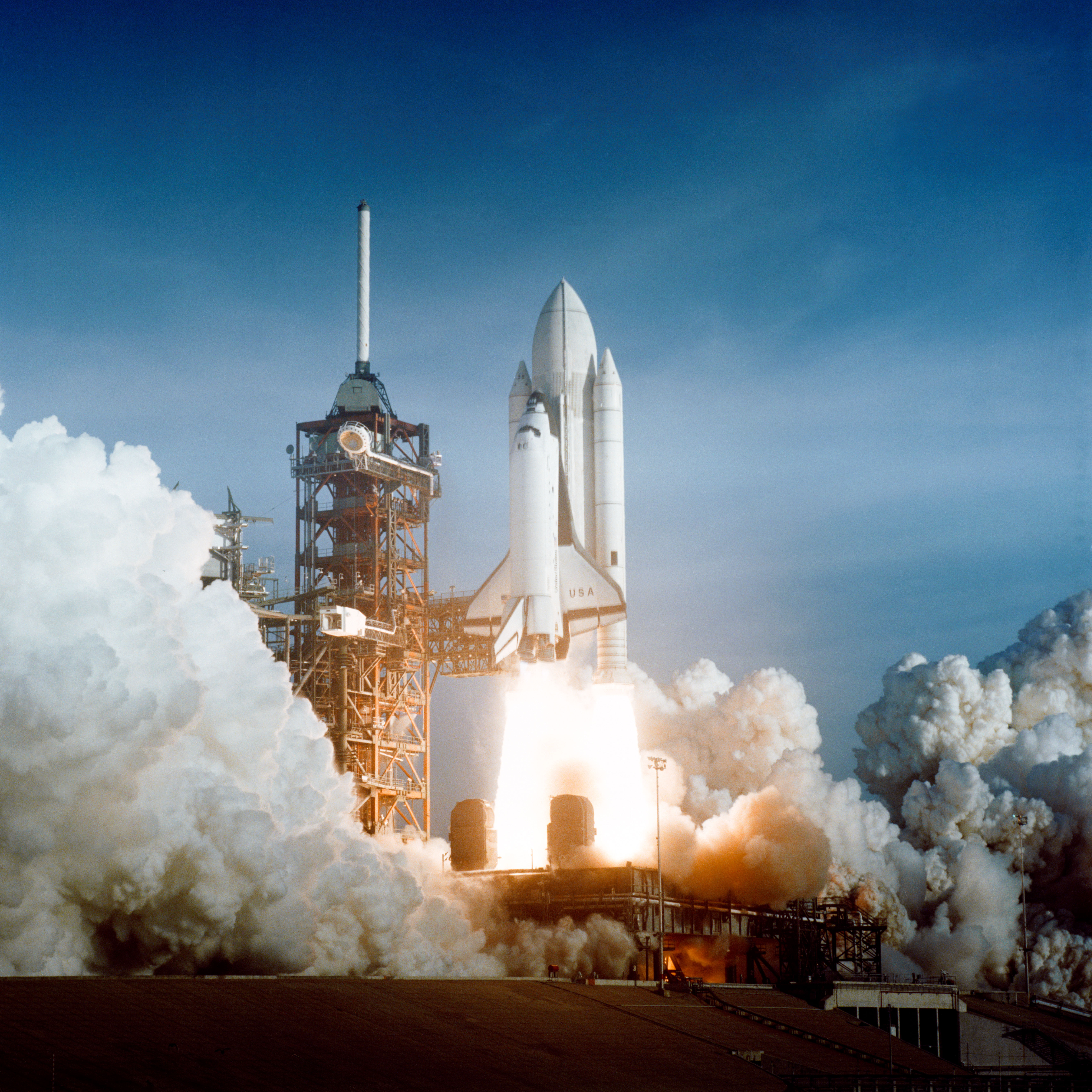 The April 12 launch at Pad 39A of STS-1, just seconds past 7 a.m., carries astronauts John Young and Robert Crippen into an Earth orbital mission scheduled to last for 54 hours, ending with unpowered landing at Edwards Air Force Base in California.